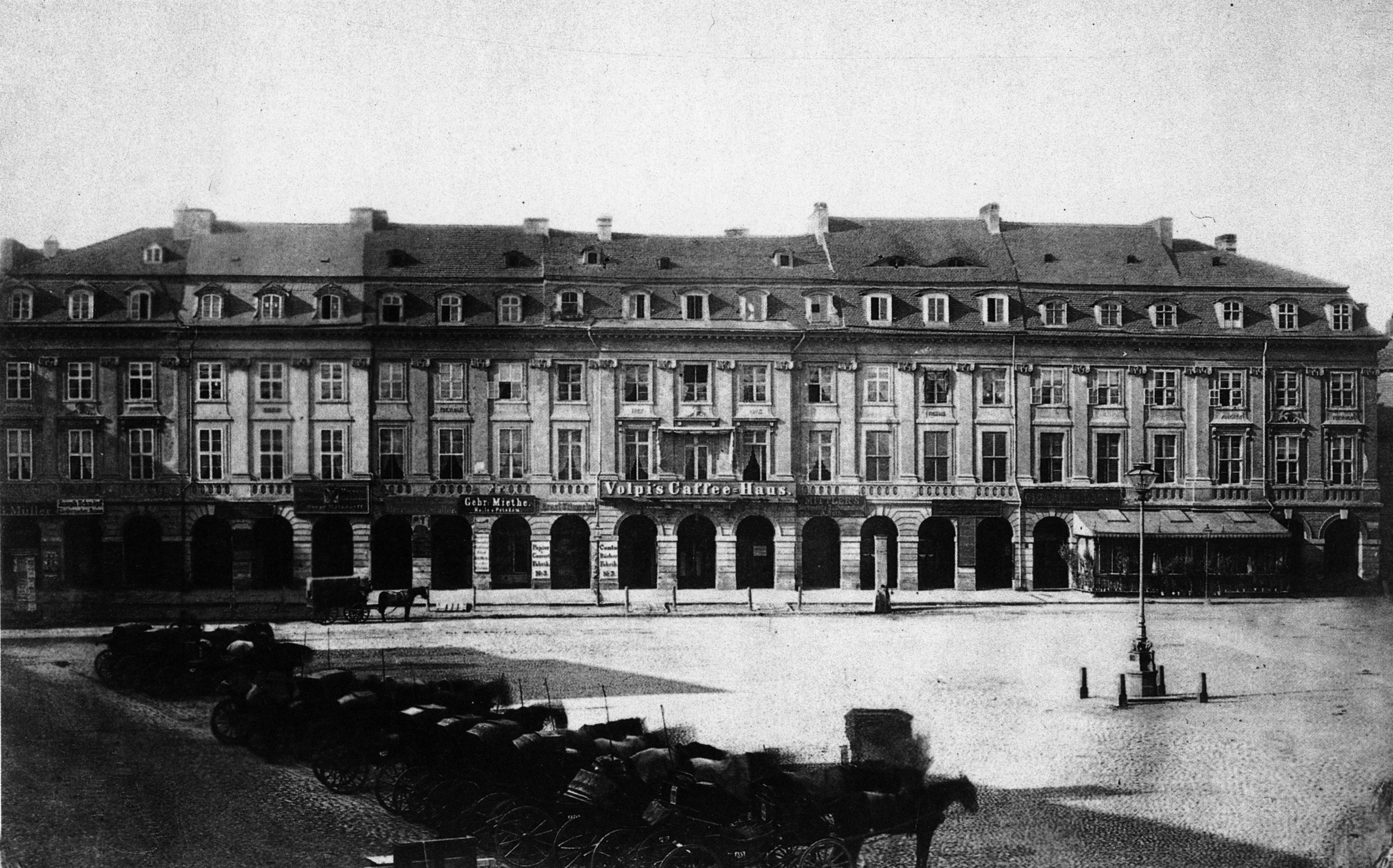 The An der Stechbahn buildings in Berlin's Cölln district, south of the Berlin City Palace.